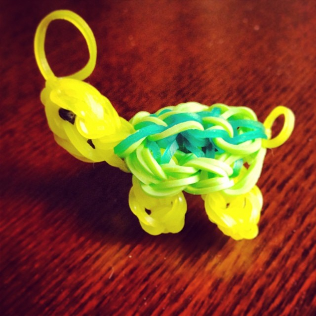 A rubber band animal made with a Rainbow Loom.